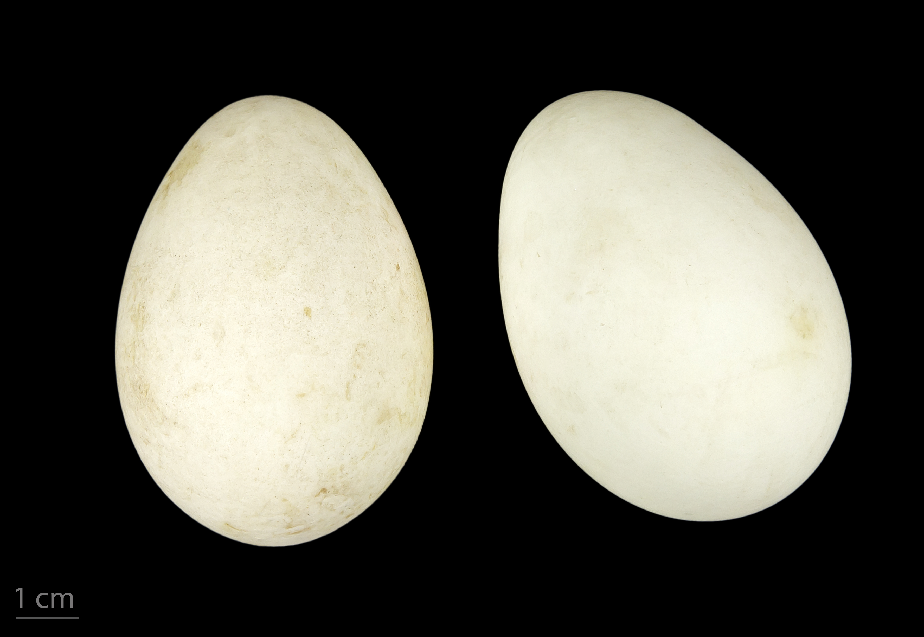 Egg of Egyptian goose Collection of Jacques Perrin de Brichambaut.